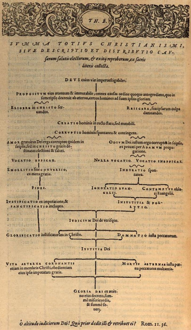 Tabula Predestinionis, Theodore Beza, 1570